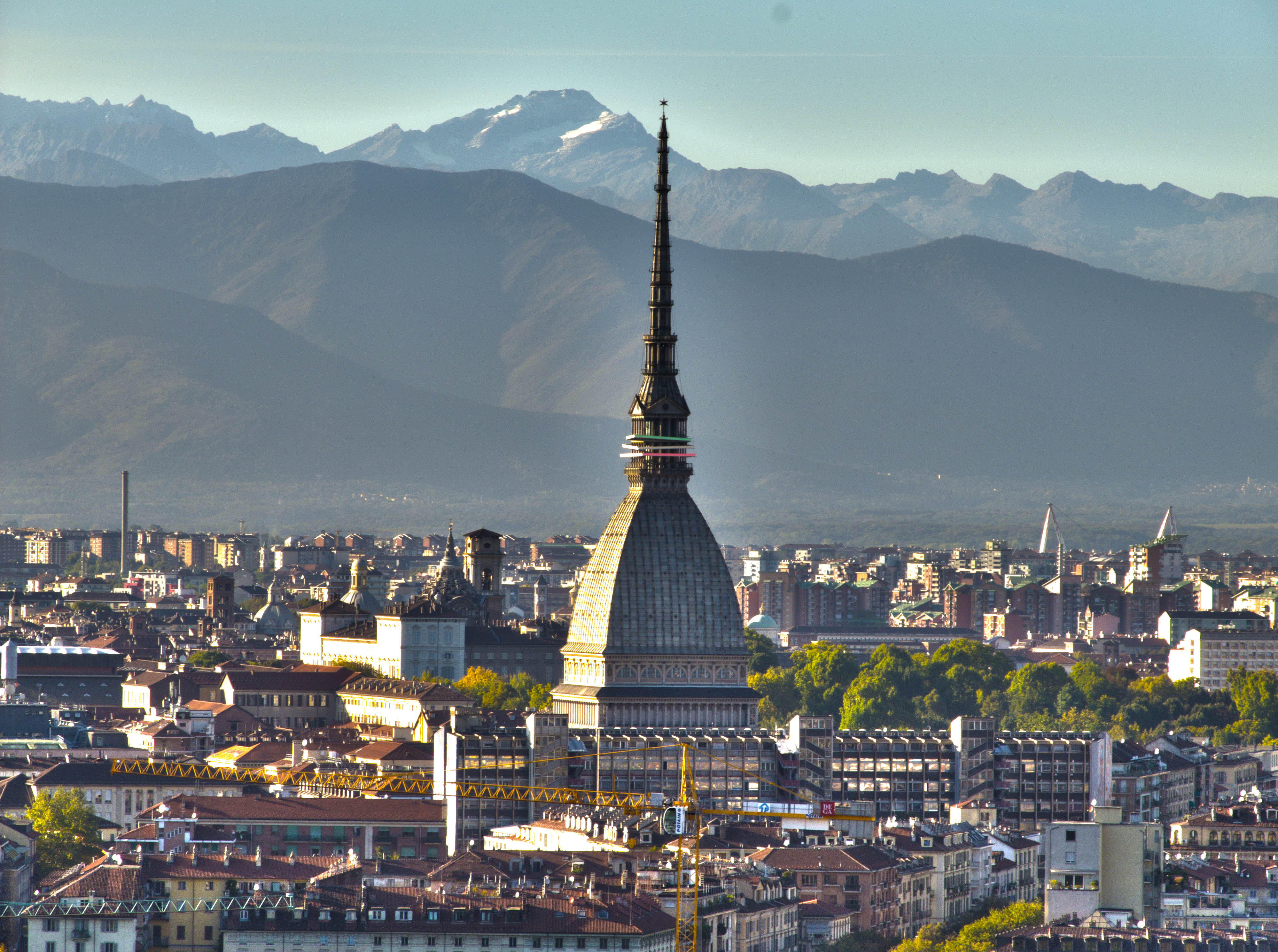 Torino and Mole Antonelliana from Villa della Regina